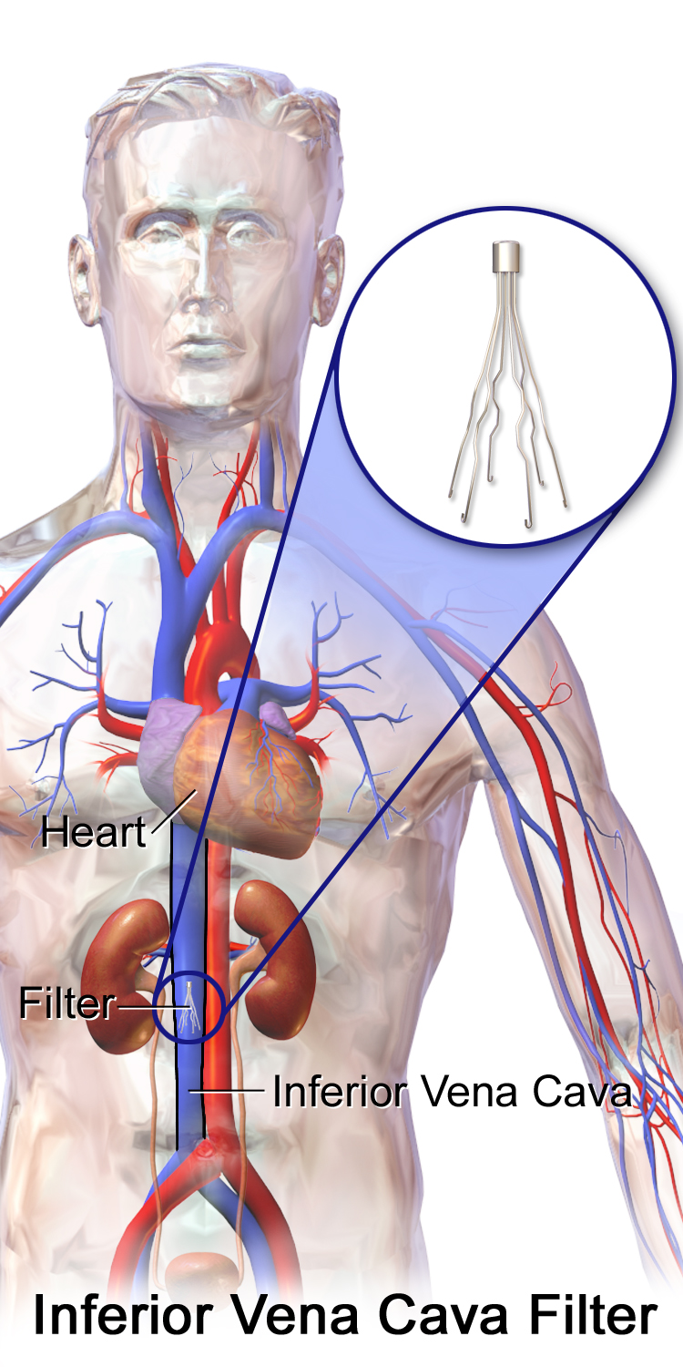 An illustration depicting the inferior vena cava filter.